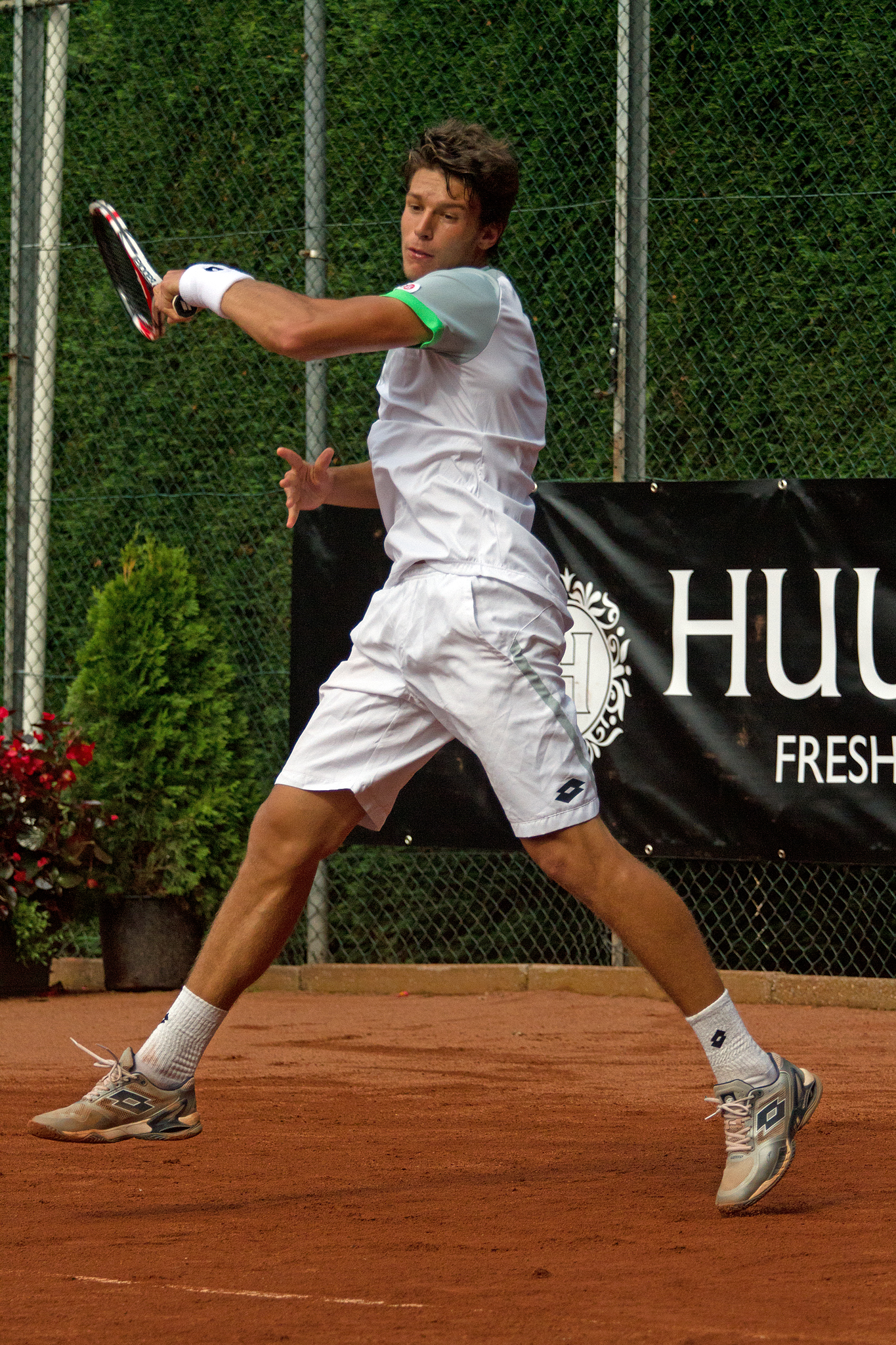 Italian tennis player Gianluigi Quinzi at the Parker Hannifin Open tournament in Oldenzaal, The Netherlands.